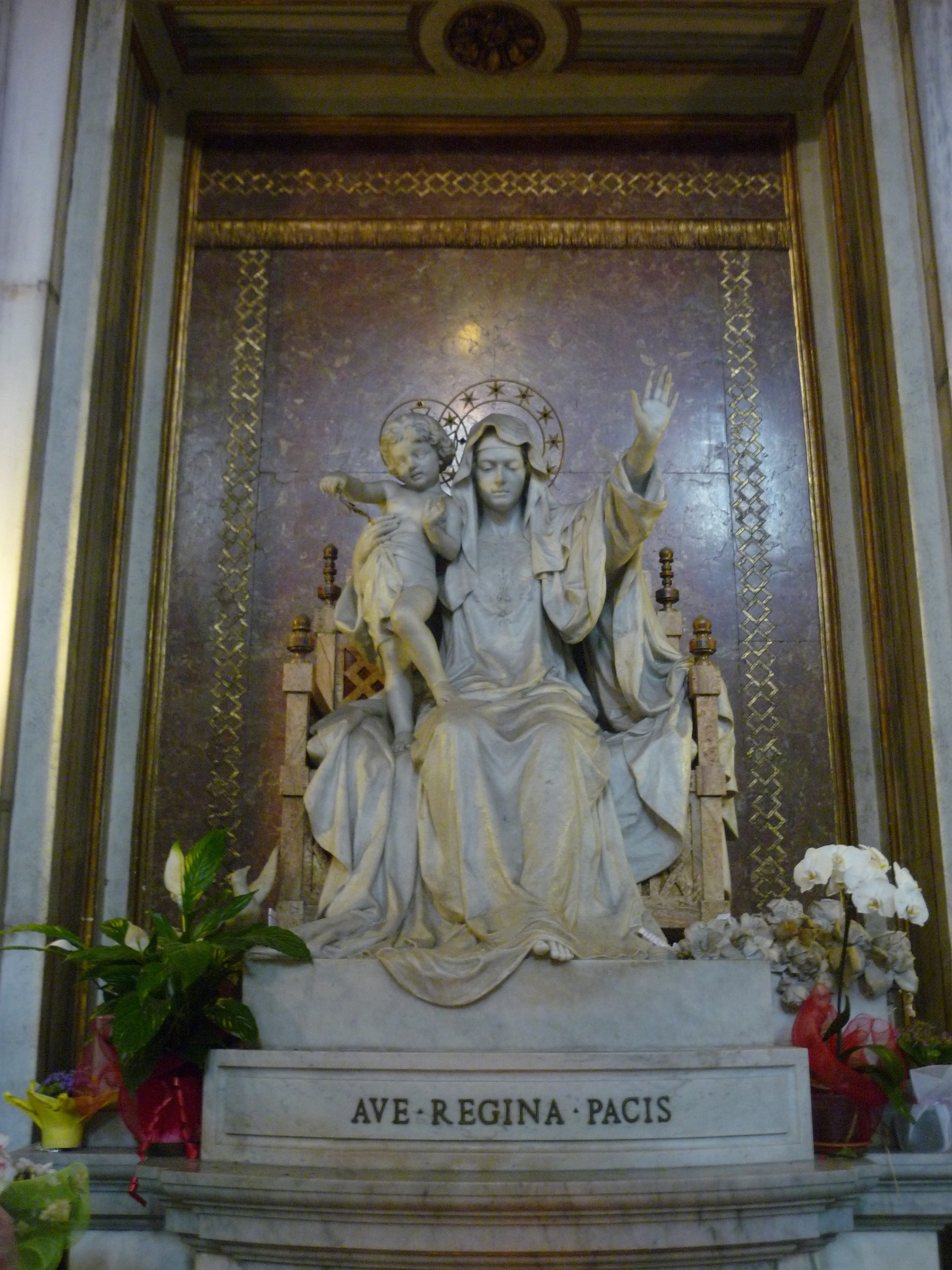 Basilica di Santa Maria Maggiore (Rome) - statue of the Holy Mary 'Ave Regina Pacis'